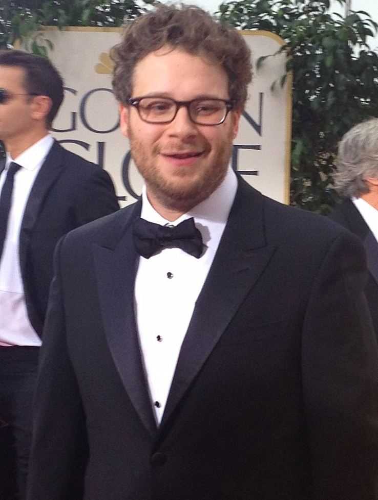 Seth Rogen at the 69th Annual Golden Globes Awards 2012.